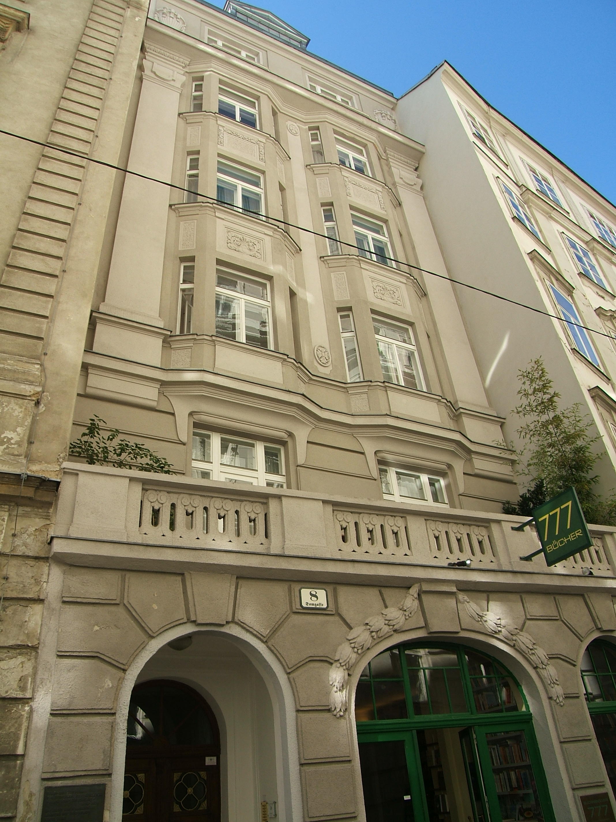 Tenement in the 1st district of Vienna, Domgasse 8